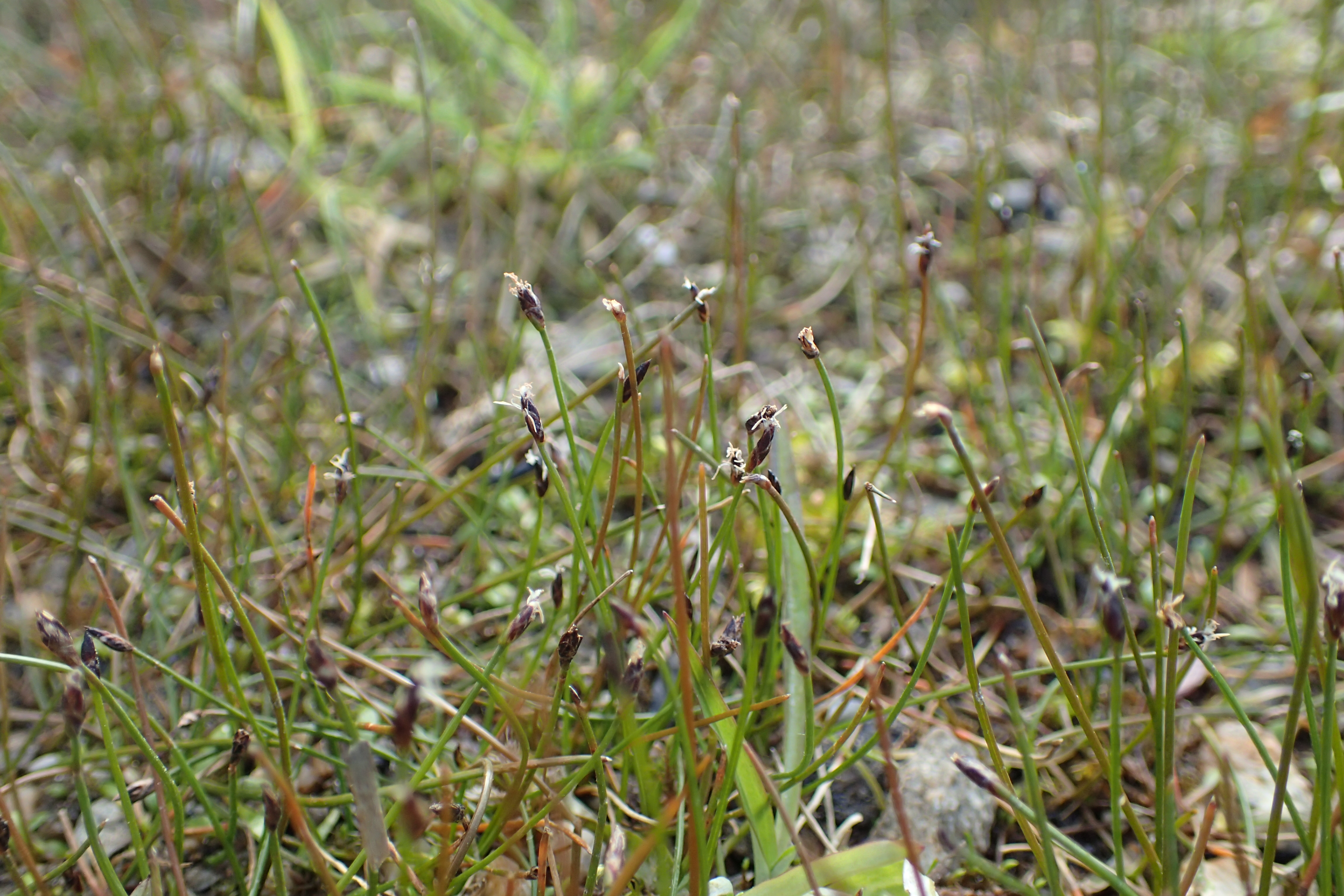 Eleocharis gracilis in Lake Wahapo, Westland (New Zealand)